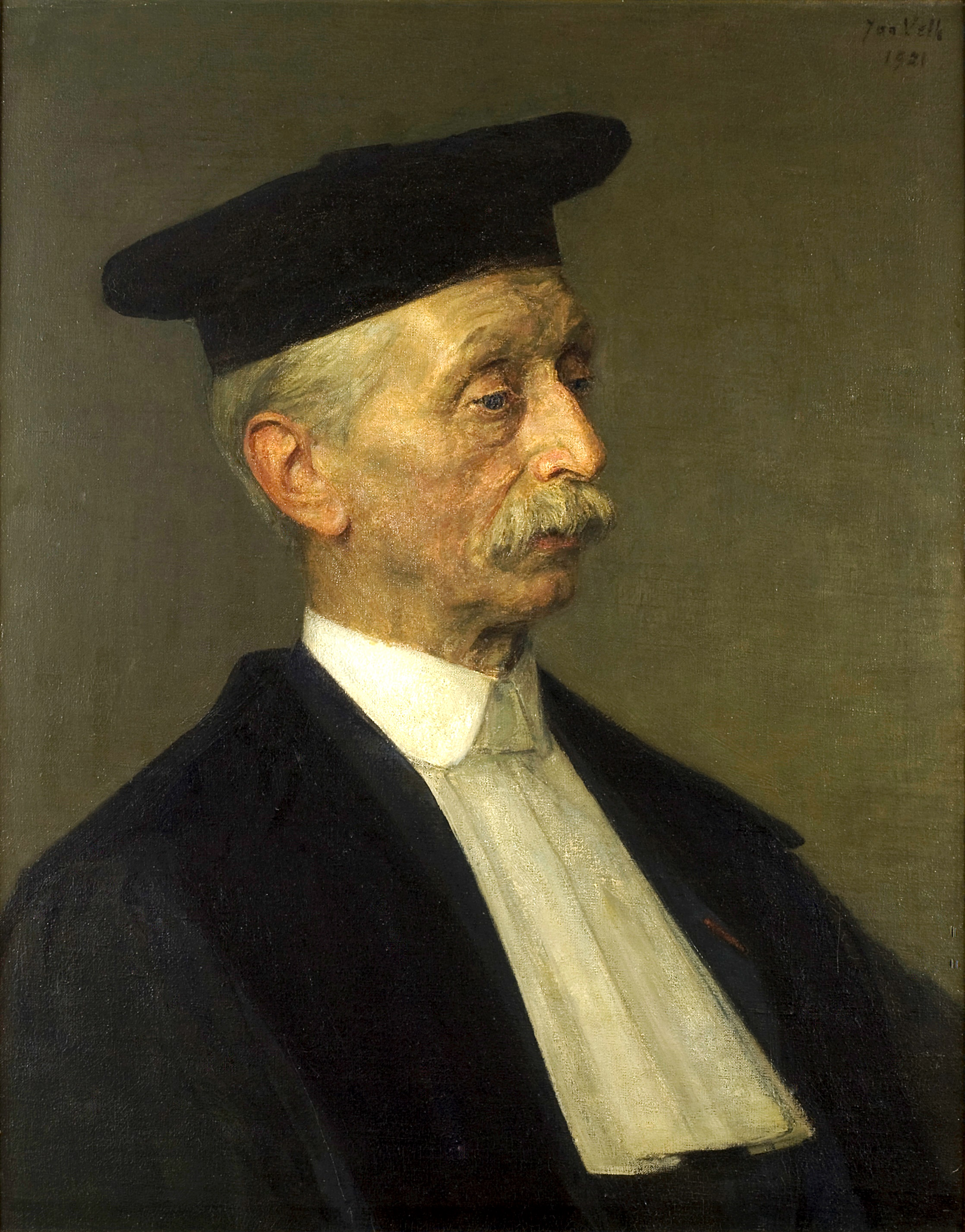 Portrait of Jacobus Cornelis Kapteyn (1851-1922)